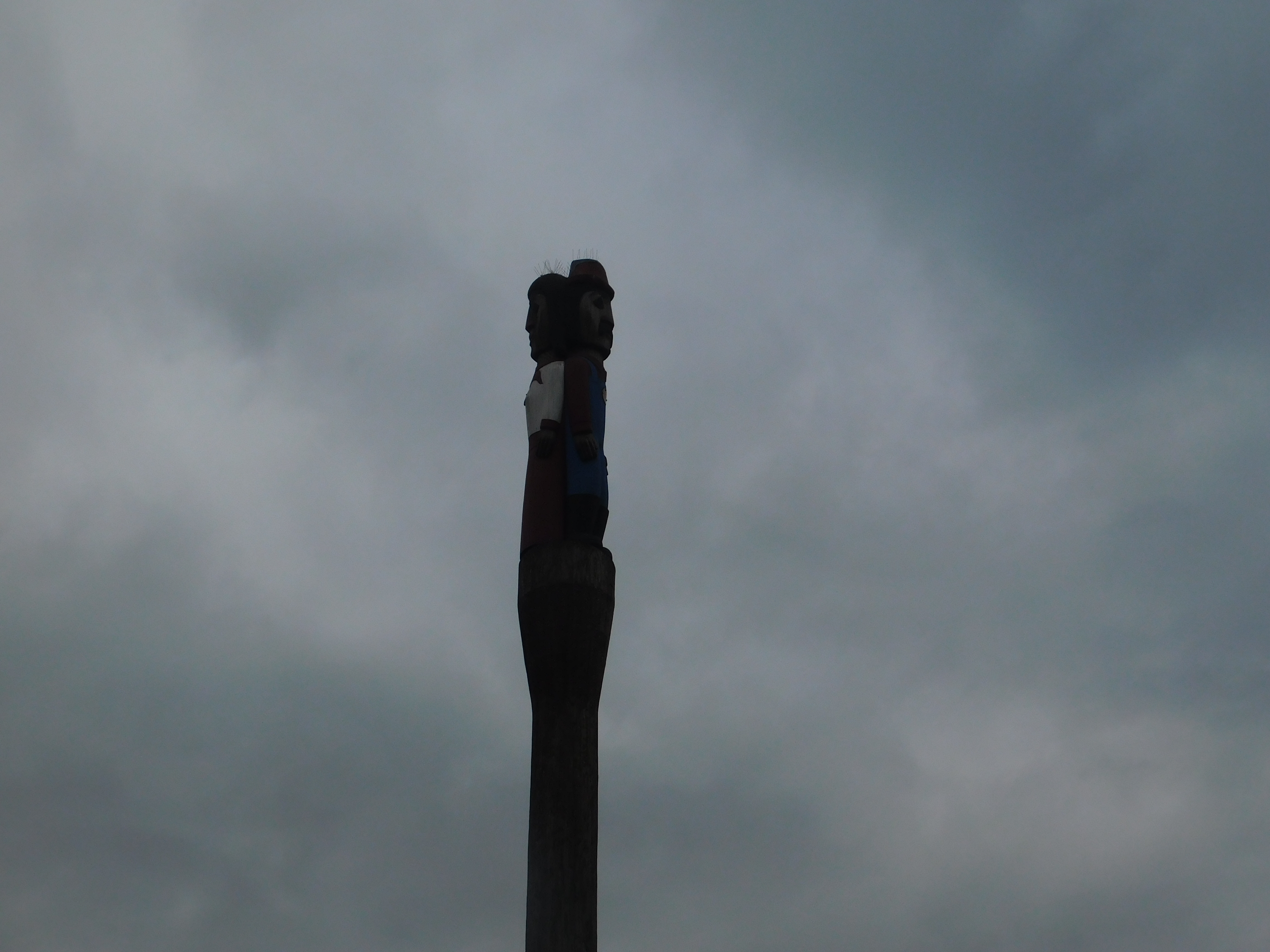 Washington